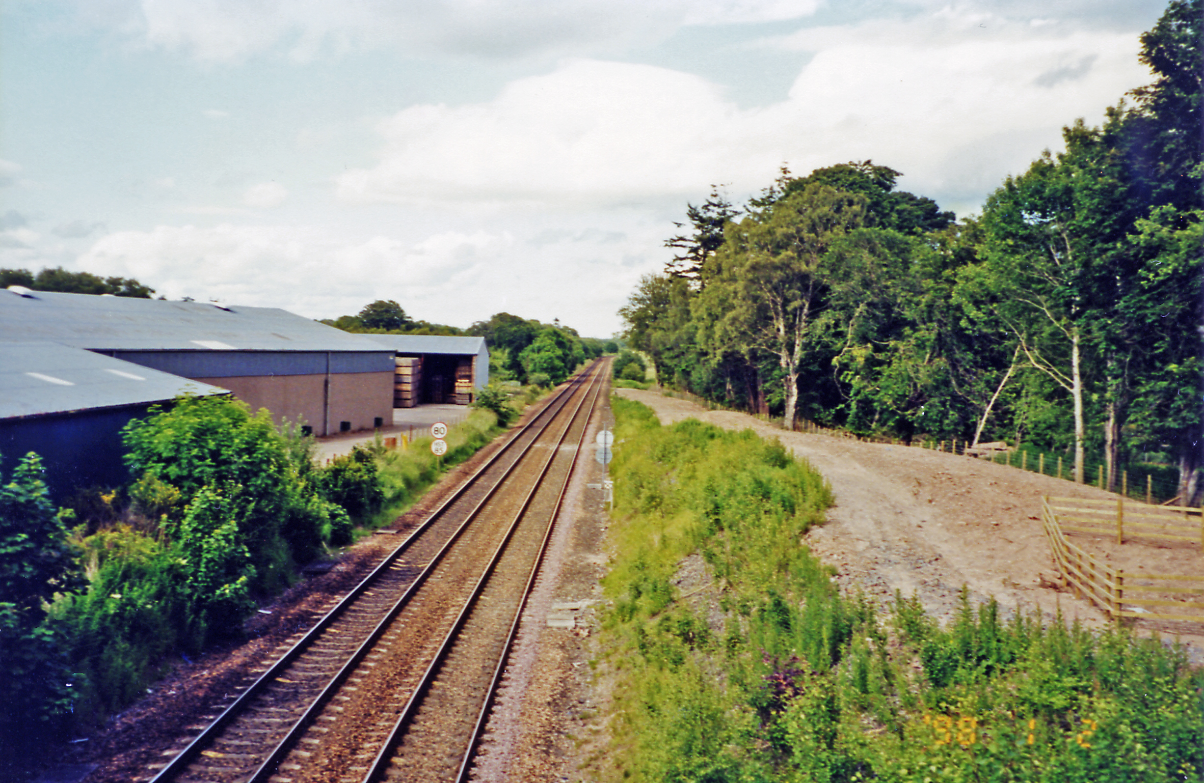 Site of Letham Grange station. View NW, towards Montrose and Aberdeen: ex-NBR Edinburgh/Glasgow - Dundee - Montrose - Aberdeen main line. The station, which probably existed primarily for Letham Grange estate and its golf courses, was closed to passenger from 22/9/30, to goods from 1/7/59; the Park is over to the right.